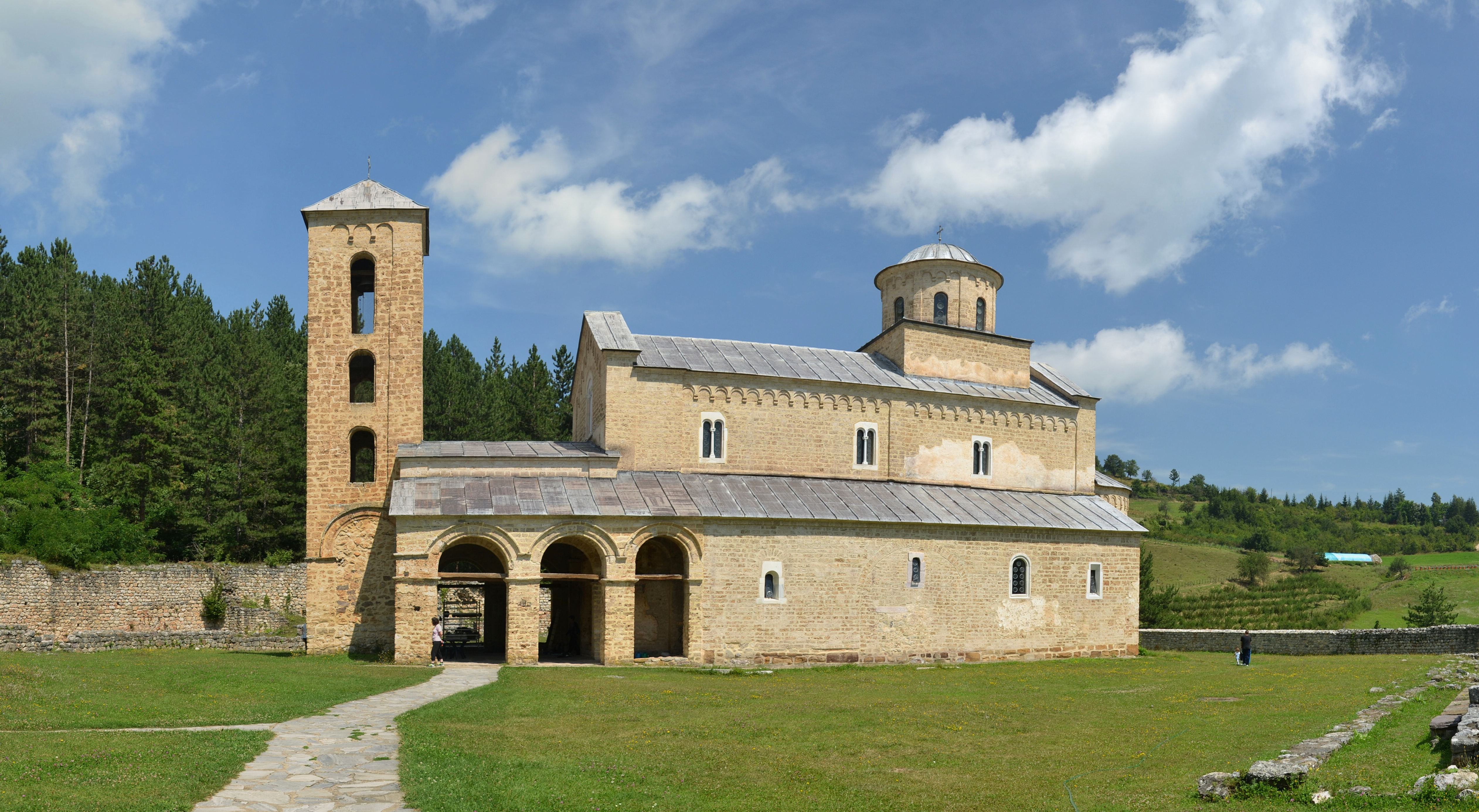 Sopoćani Monastery, Serbia